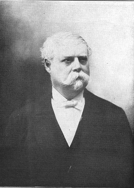 Photograph of American writer and statistician Charles Felton Pidgin, appearing in 1918 book Popular American Composers.